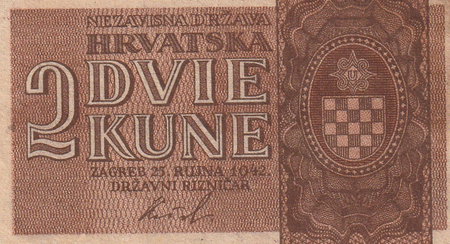 2 kune 25 rujna 1942